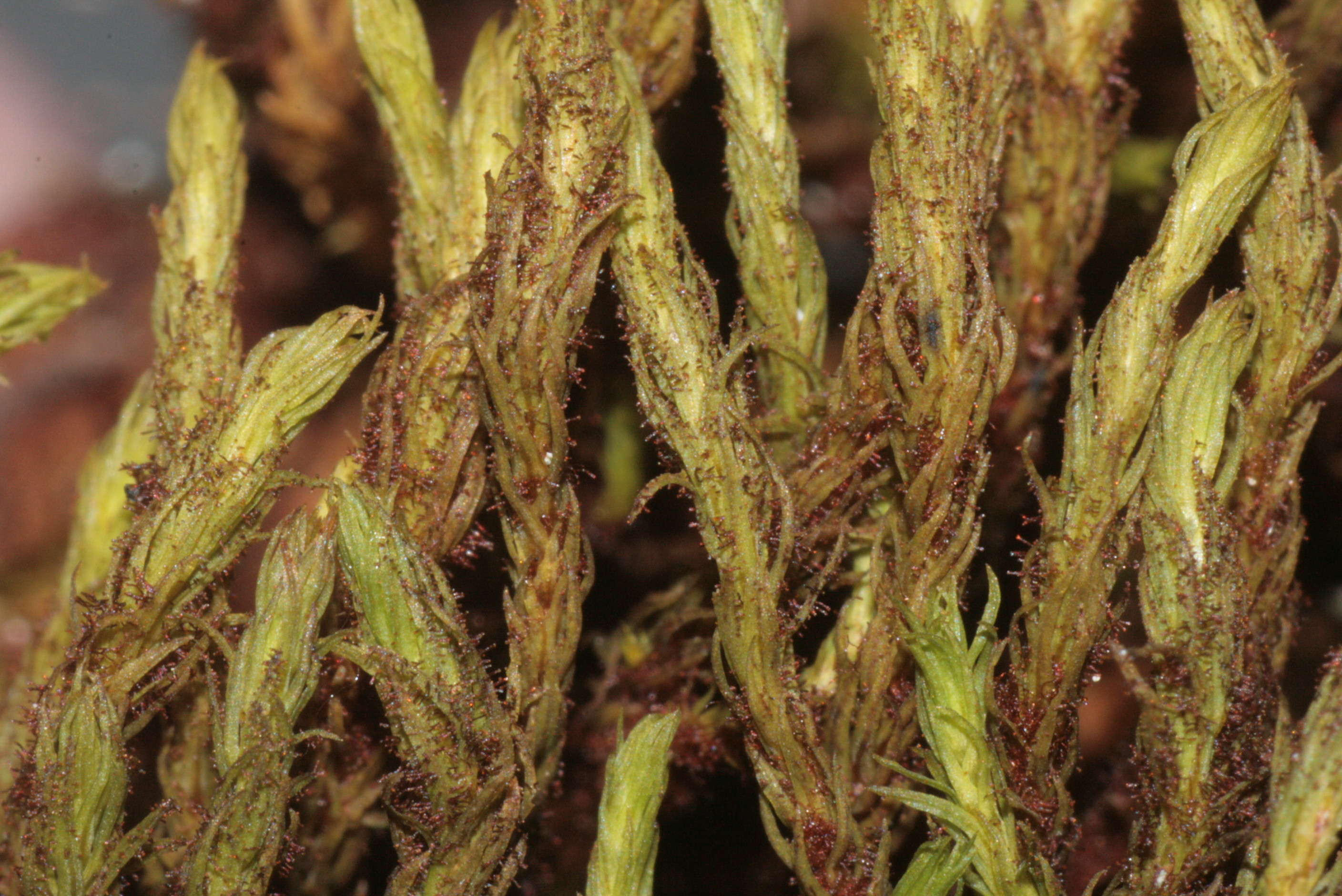 Orthotrichum lyellii